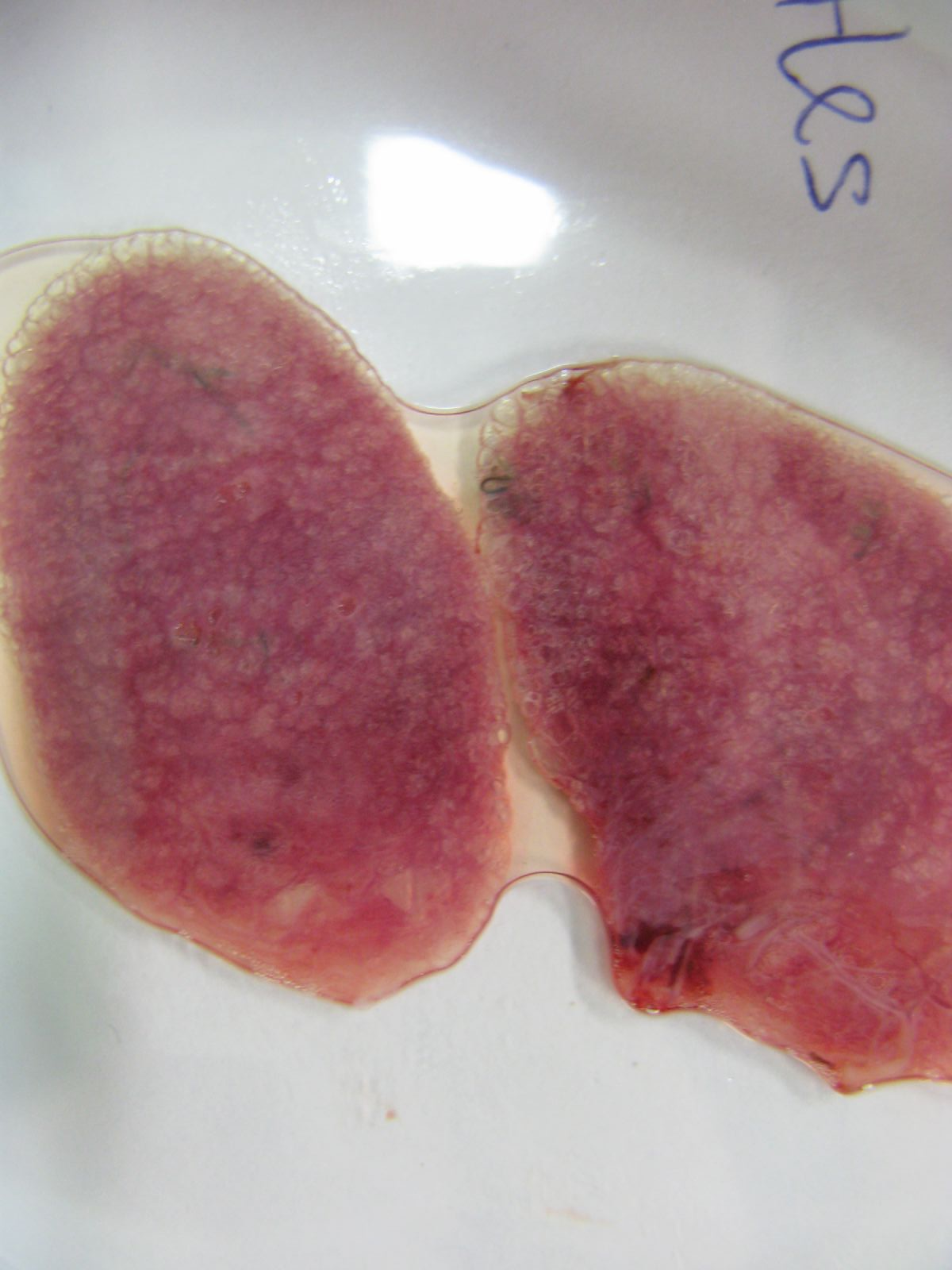 These are my cane toad lungs. An easy way to count parasites is to squish the lungs flat between 2 petri dishes. There were ten parasites, not all of which are visible in this shot.